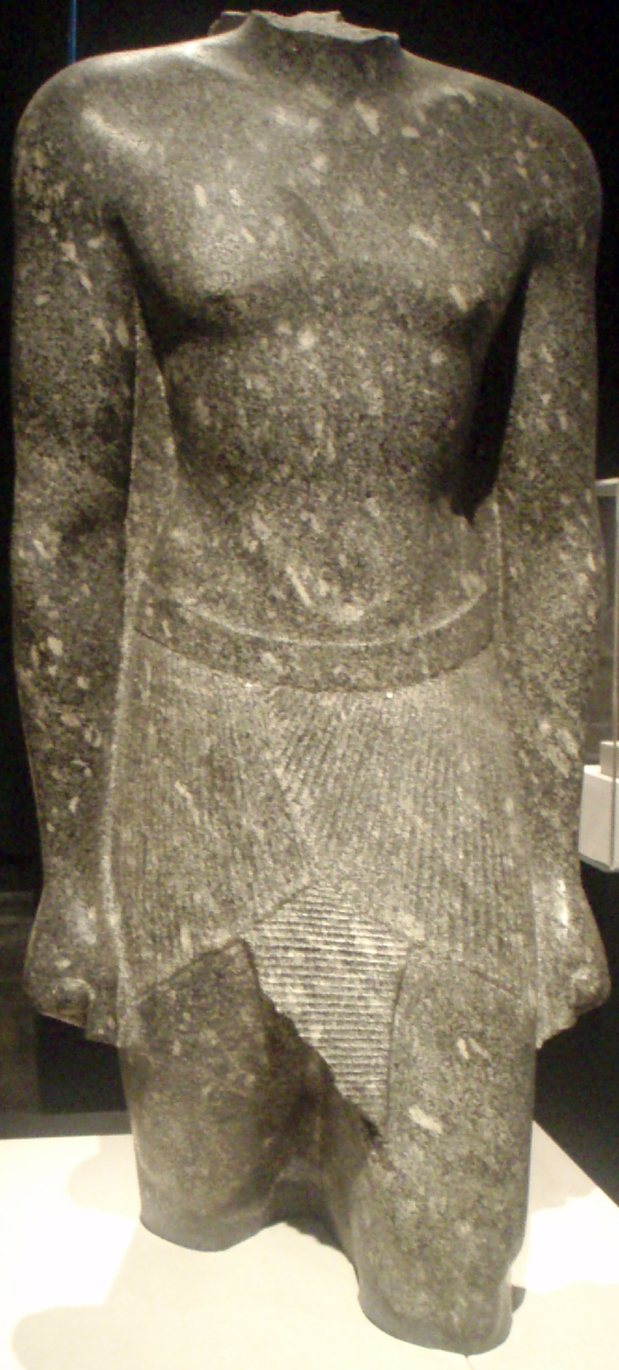 Granodiorite fragmentary statue torsi of the pharaoh Achoris, from the 29th dynasty, circa 393-381 B.C. Now residing in the Museum of Fine Arts, Boston.